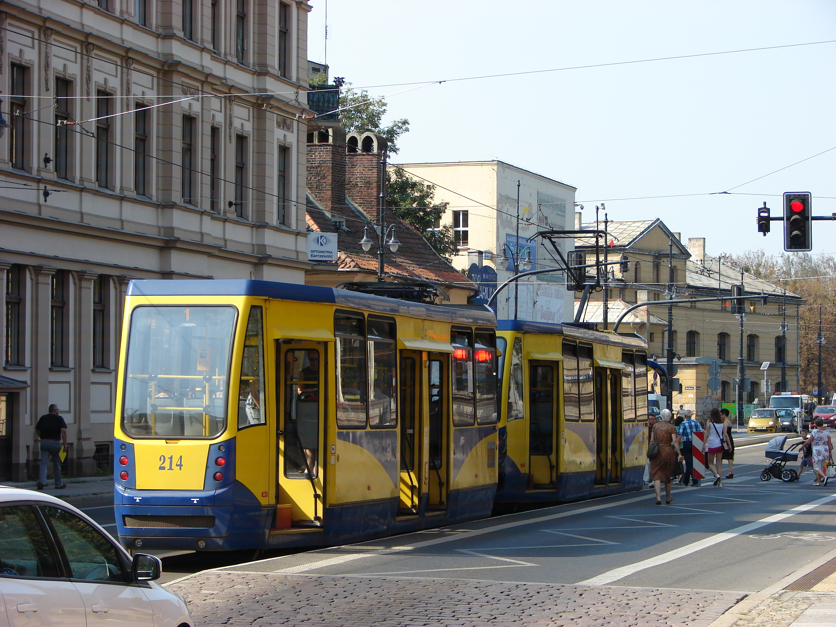 Toruń, Poland. Konstal 805NaND. Sept. 2016